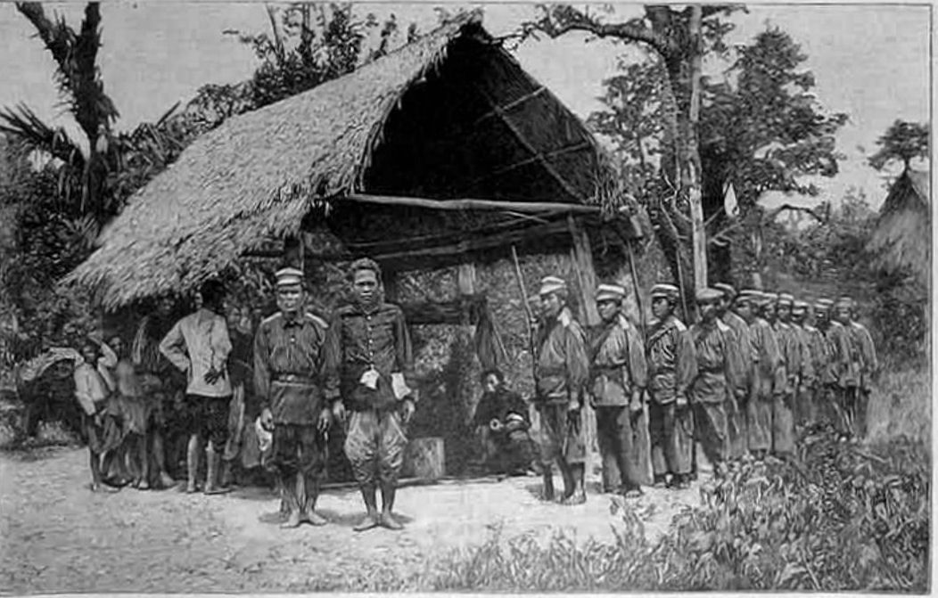 Siamese_Army_in_Laos_1893